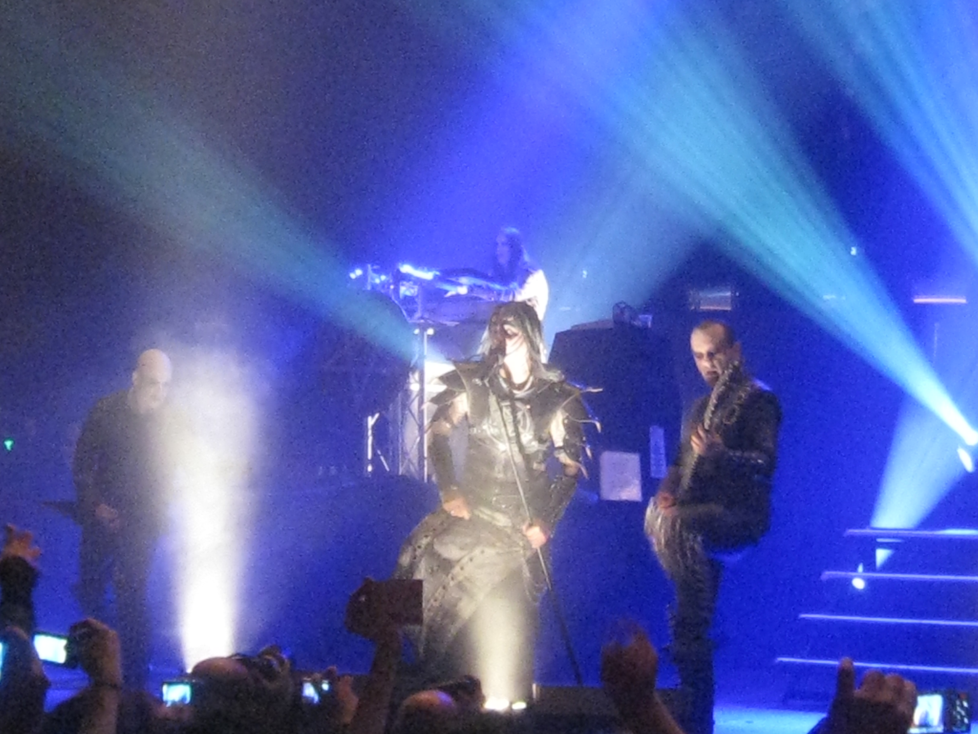 Dimmu Borgir live at Defenders Of The Faith tour in Brixton Academy.